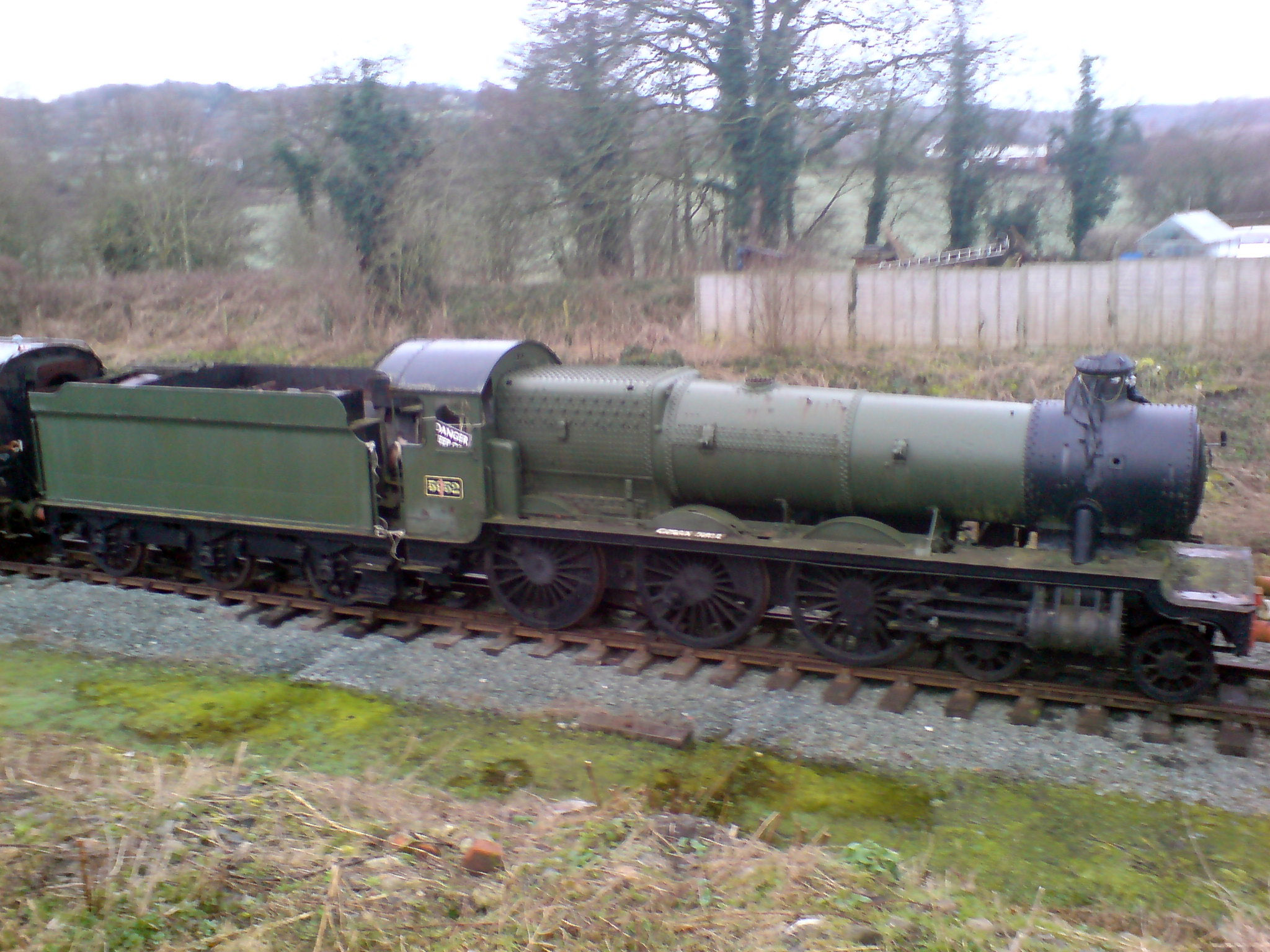 Cogan Hall at Llynclys Station on 04/03/07